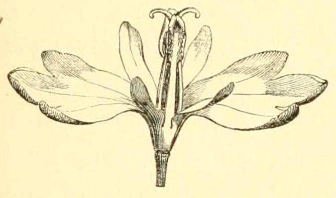 Illustration of Hypecoum procumbens from H. Baillon [translated by M. Hartog] The natural history of plants. - Vol. 3. - London, 1871.